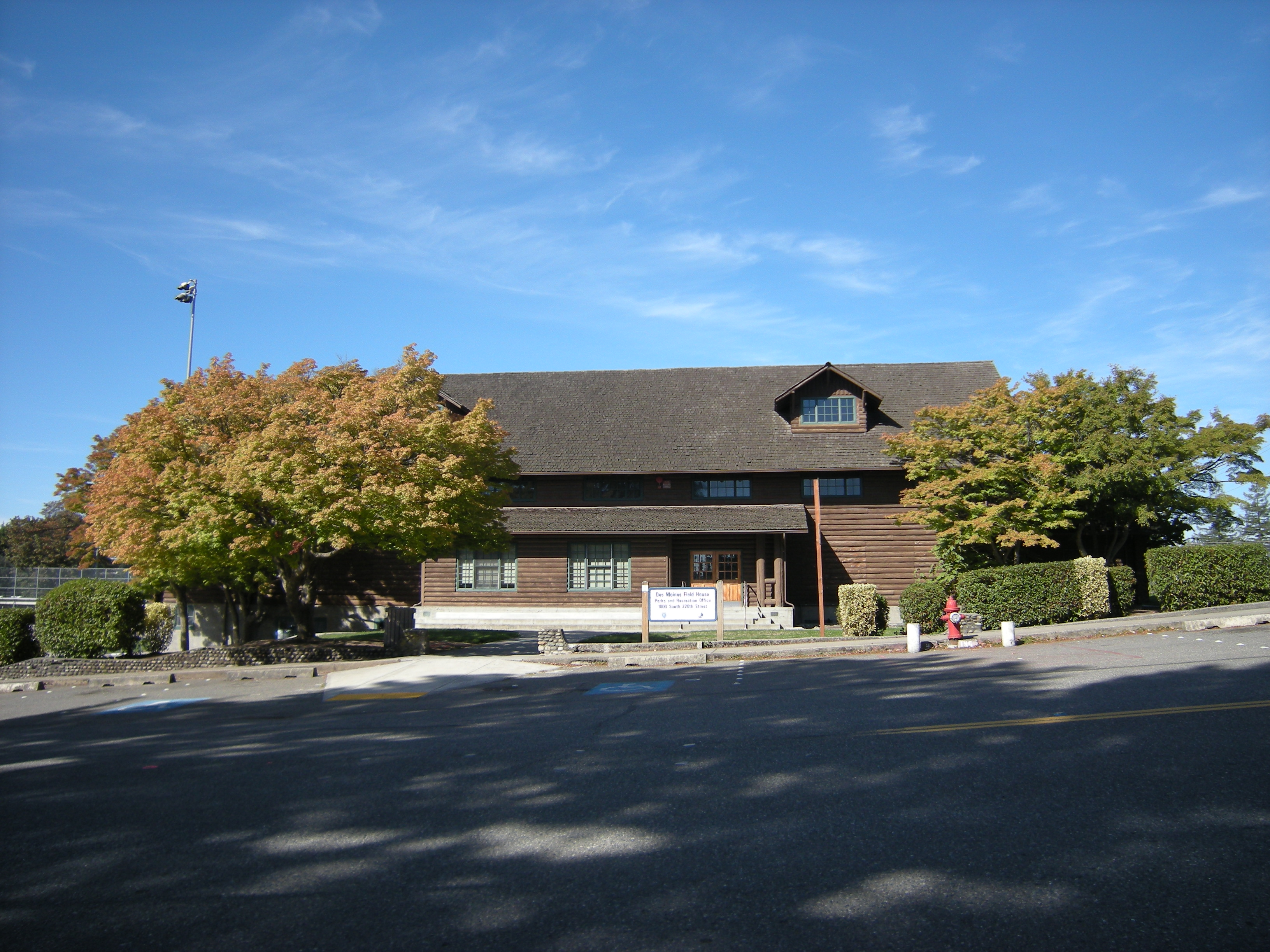 Des Moines Field House, 1000 S. 220th Street, Des Moines, Washington. The building was built by the WPA and is listed as a King County Landmark. The county list apparently lists this as Des Moines Activity Center, but that is the name of a different building at 2045 S. 216th St.